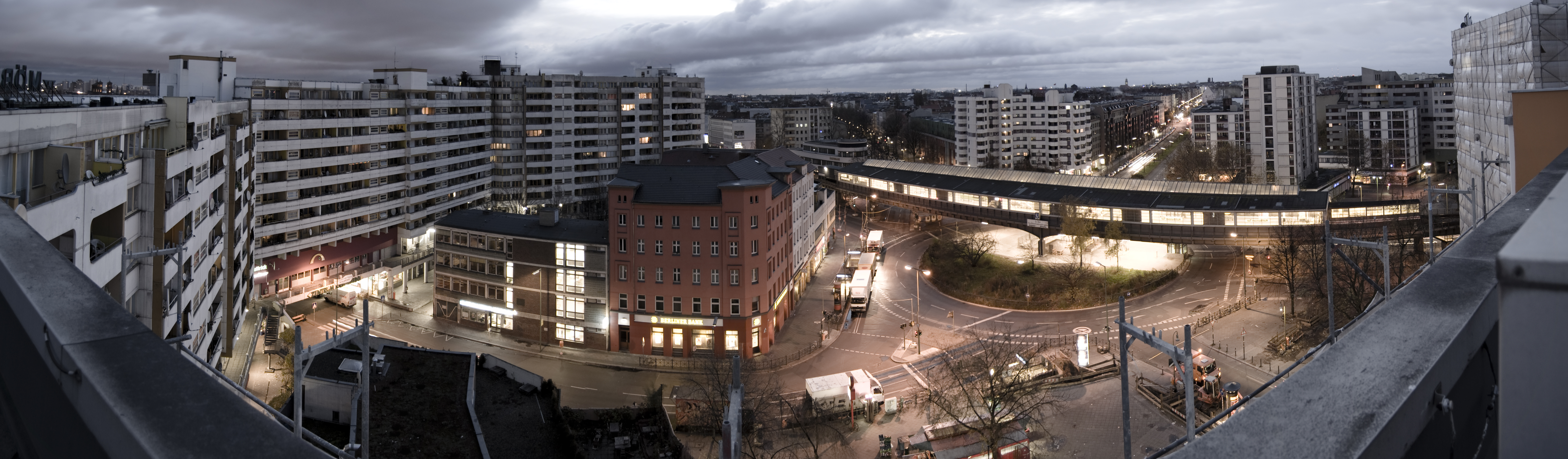 The Kottbusser Tor in Kreuzberg 36 by night.